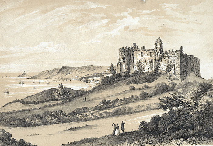 A view of the ruins of Oystermouth castle with ships in the bay below and a lighthouse in the background.